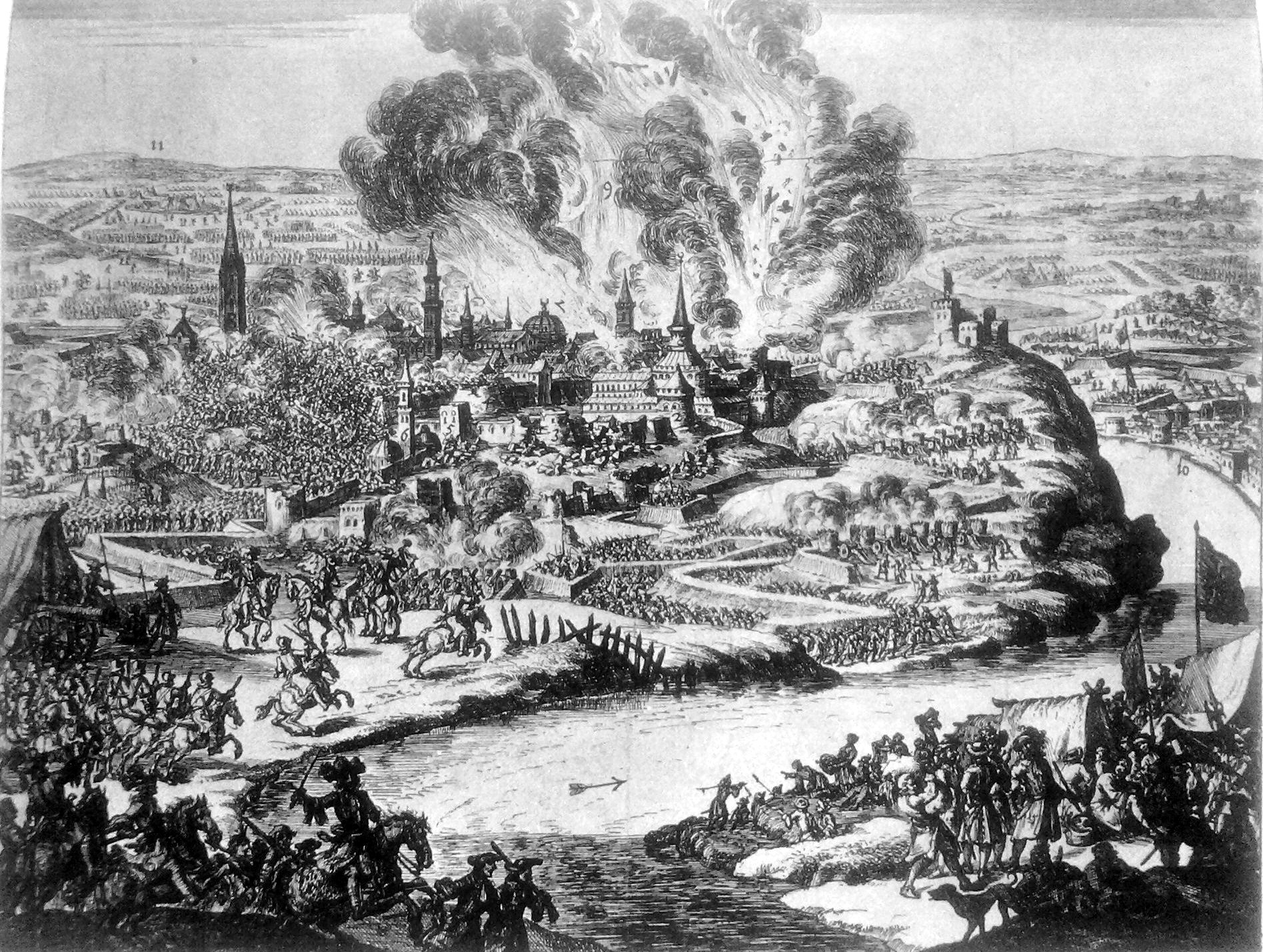 Siege of Buda, 1686